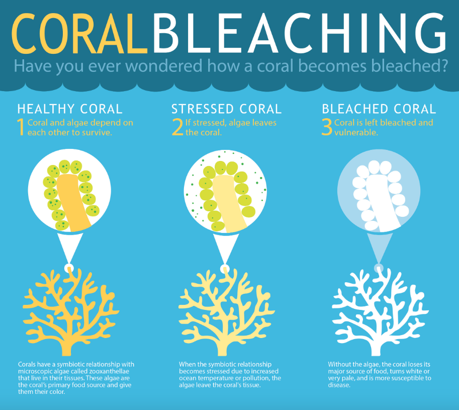 Coral bleaching. If the stress-caused bleaching is not severe, coral have been known to recover. If the algae loss is prolonged and the stress continues, coral eventually dies